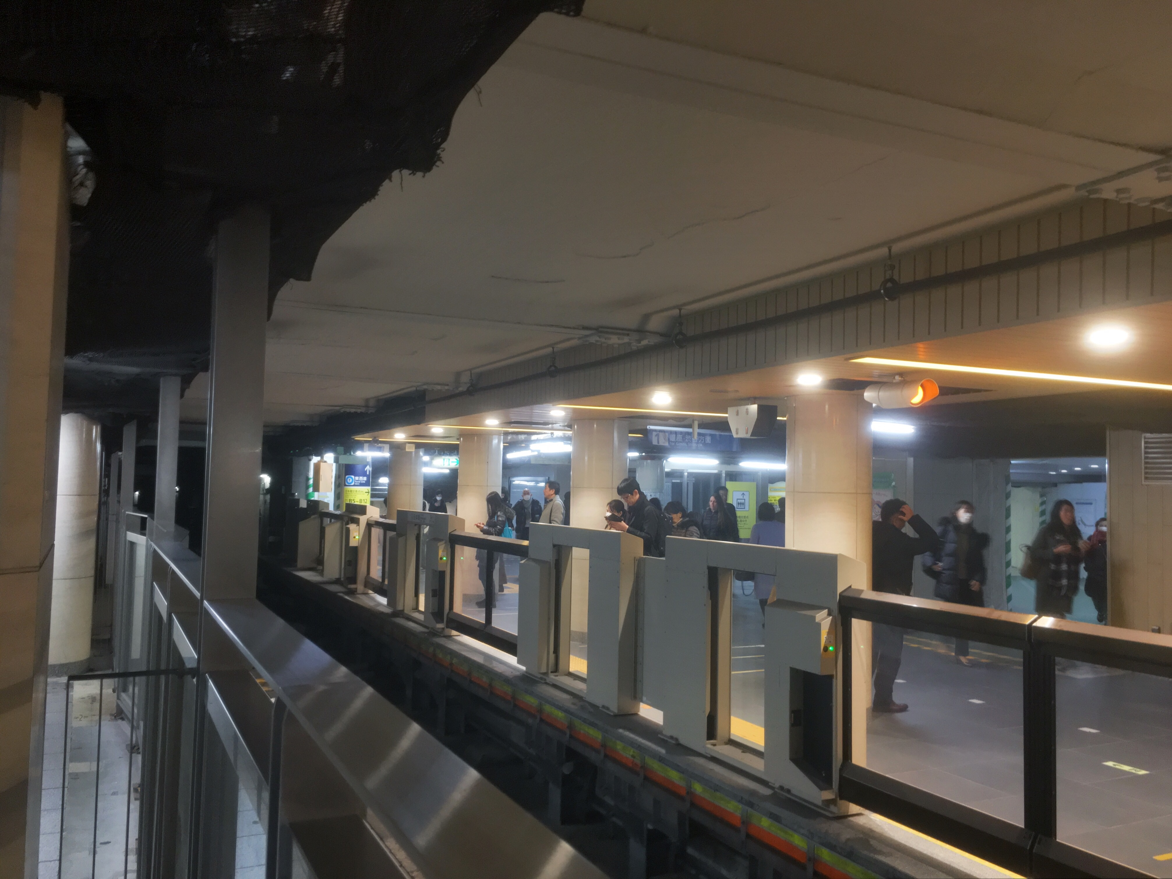 日本橋駅のホーム (Nihombashi Station platforms)